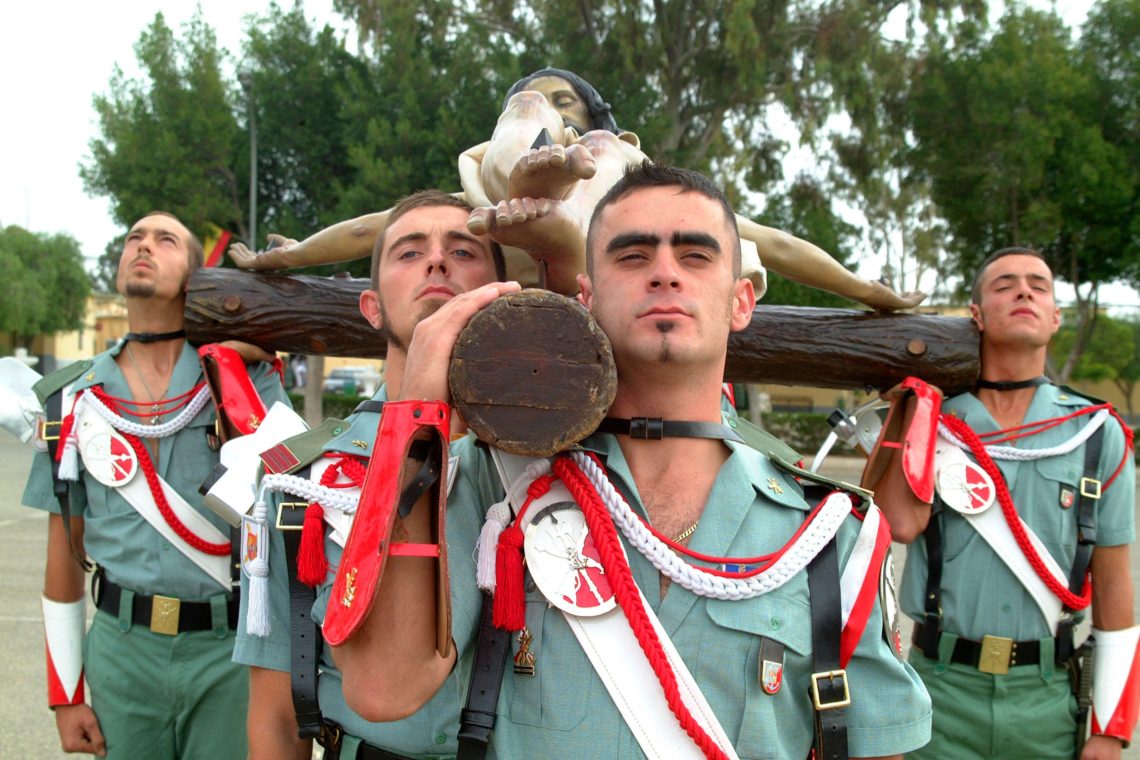 Spanish legionnaires carrying the Christ of the Good Death in Holy Week in Malaga, Spain.